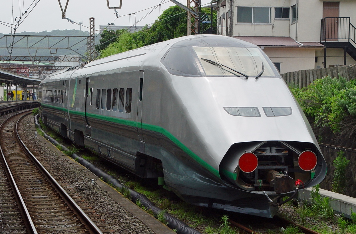 JR East E3-1000 series Yamagata Shinkansen set L53 at Zushi Station in Kanagawa Prefecture on delivery from the Tokyu Car factory in Yokohama